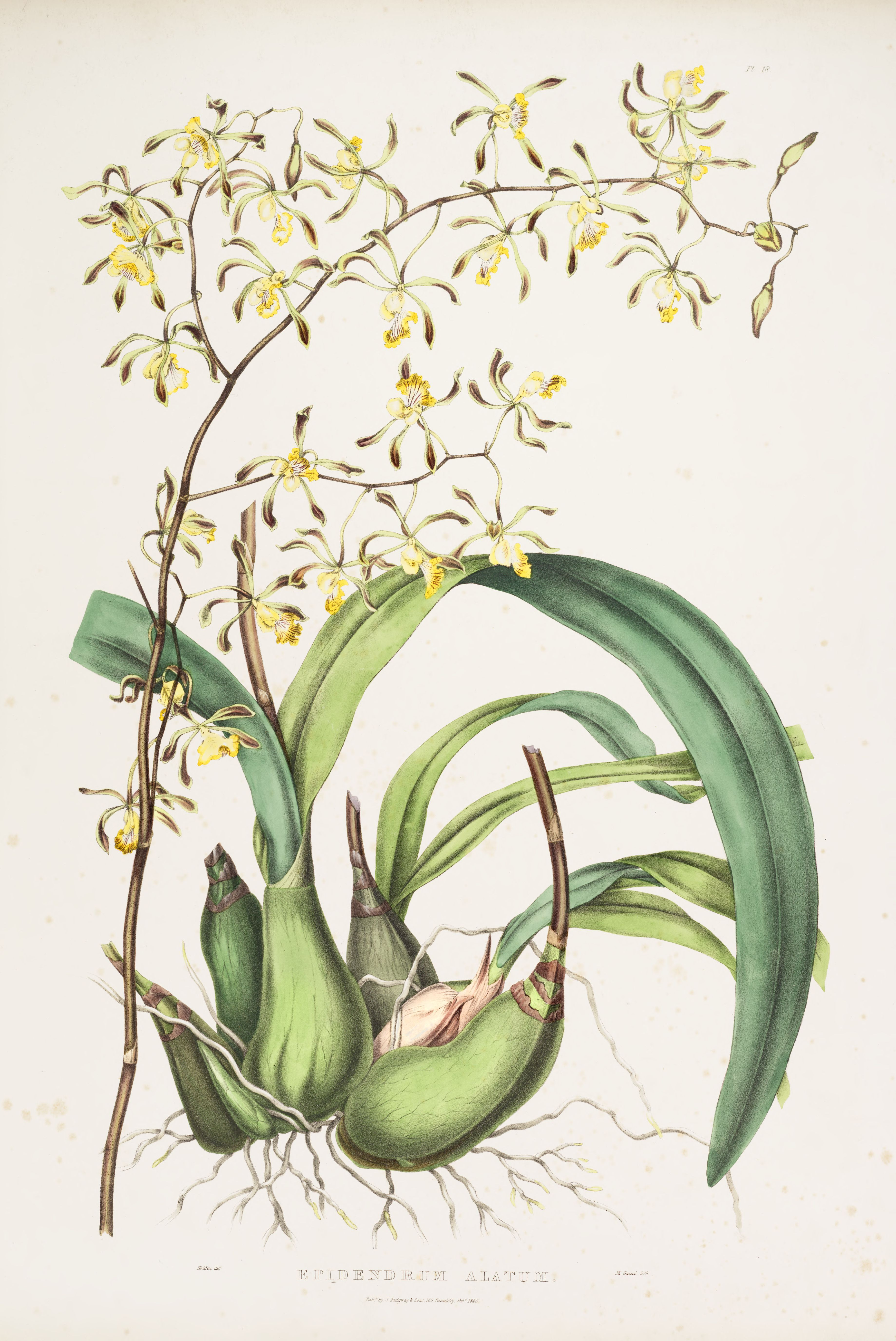 Illustration of Encyclia alata (as syn. Epidendrum alatum)